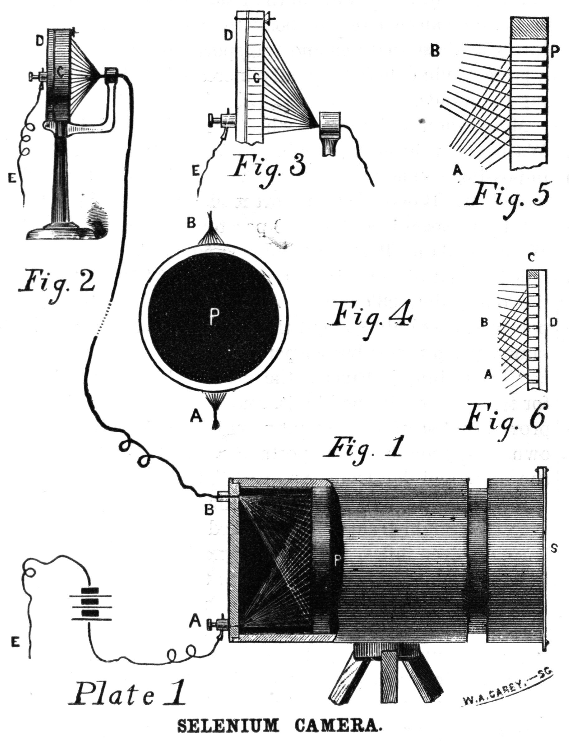 A selenium camera invented by George R. Carey (b. 1851). "Seeing by electricity. Selenium camera." Illustration in: "Scientific American", New York : Munn & Co., 1880 June 5.